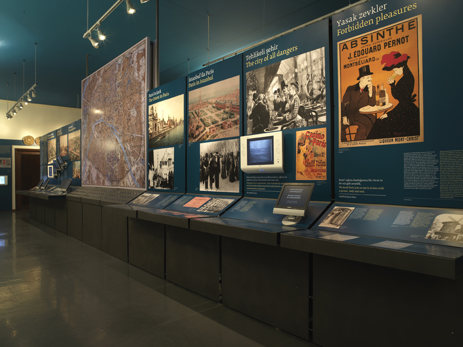 Ottoman Bank Archives and Research Centre exhibition: Prelude to the 1908 Revolution: The Ottomans in Paris